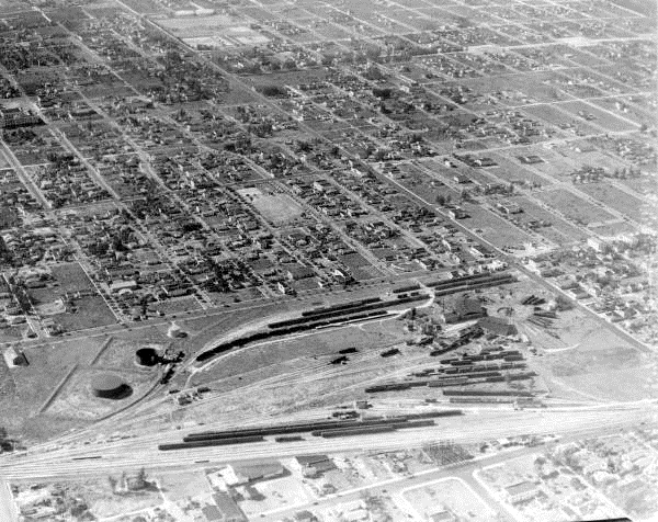 Northwestward view of the Florida East Coast Buena Vista rail yard. North 36th Street (US 27) borders northern property from right-center to top-left (Moore Park visible), Miami Avenue borders west property visible slightly diagonal from left-to-right center, and North 29th Street visible in lower left corner.